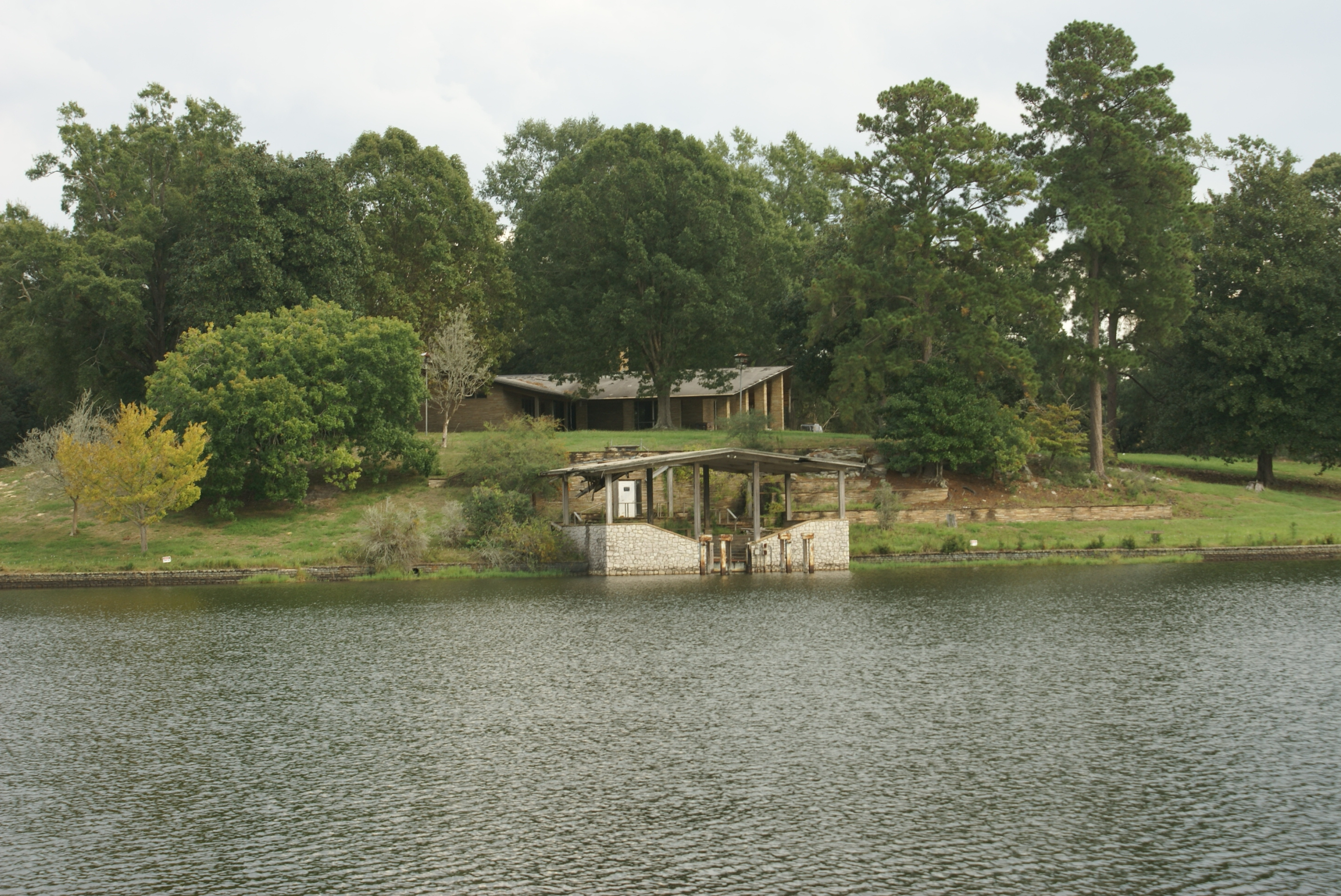 View from the lake in Hodges Gardens State Park.